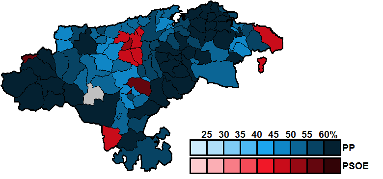 Most-voted party in Cantabria municipalities, showing vote share obtained, in the Spanish general election, 2004.